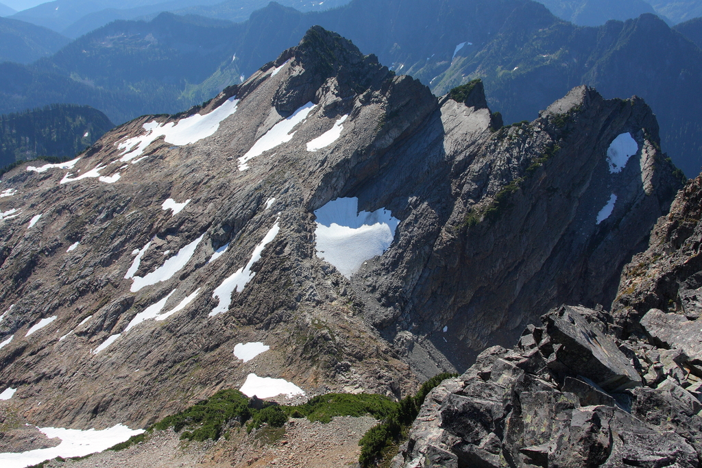 Gothic Basin and Del Campo Peak, September 14, 2008.